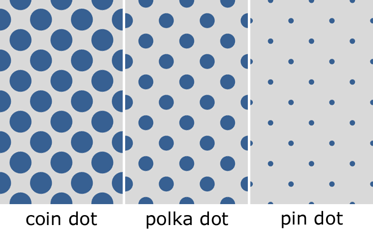 Coin dot, Polka dot, Pin dot